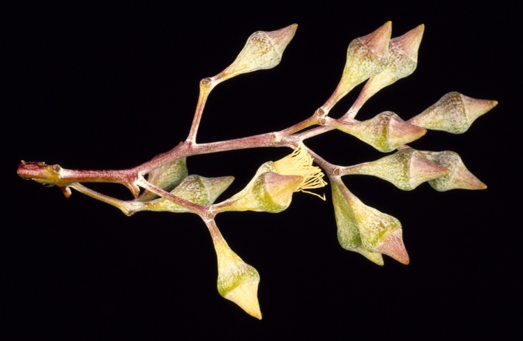 Flower buds of Eucalyptus caleyi